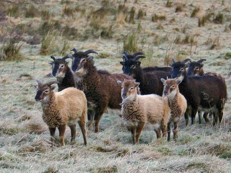 Soay sheep at Inverchor, Glenlivet